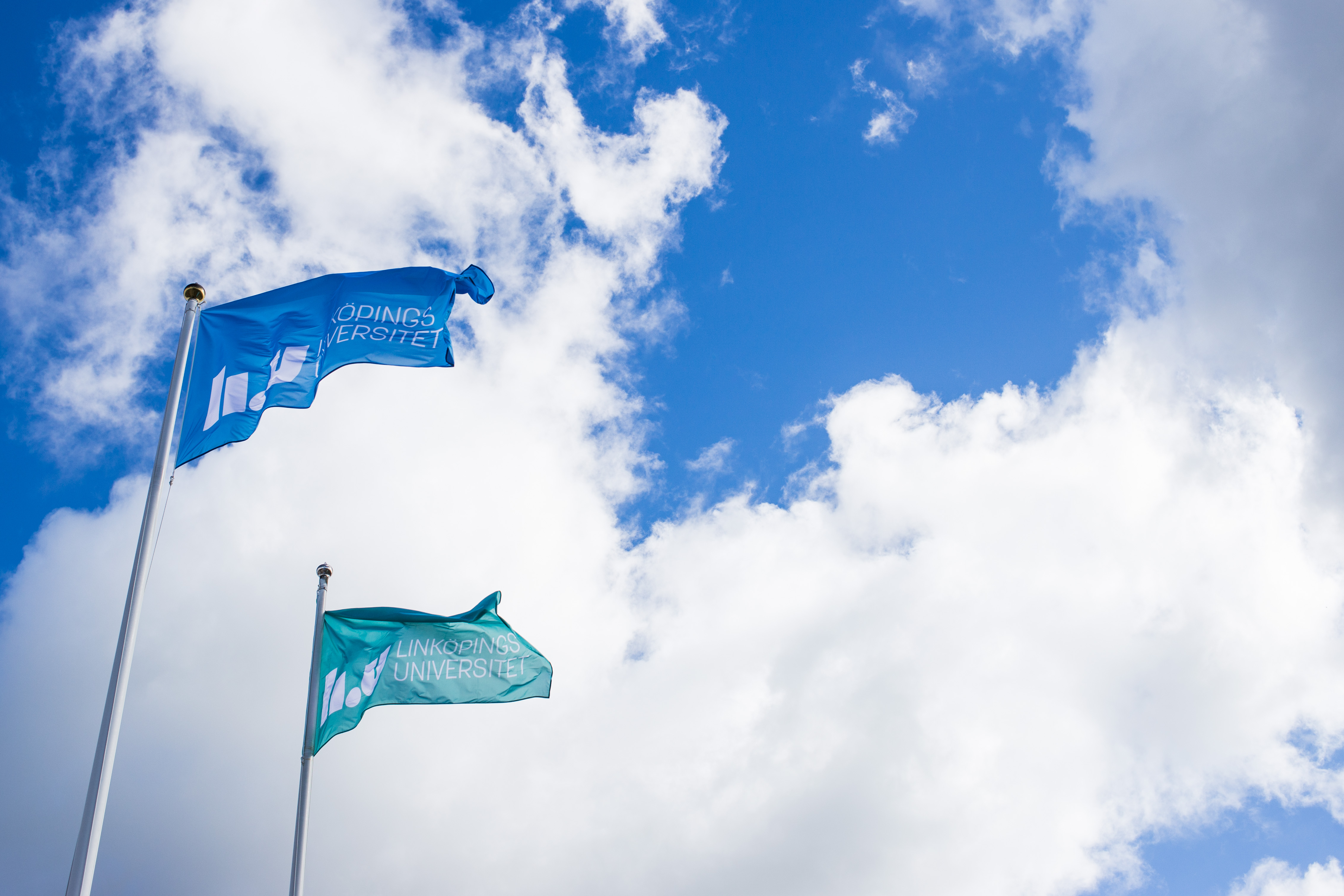 Flags, Linköping university